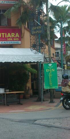 The entrance to penang little india